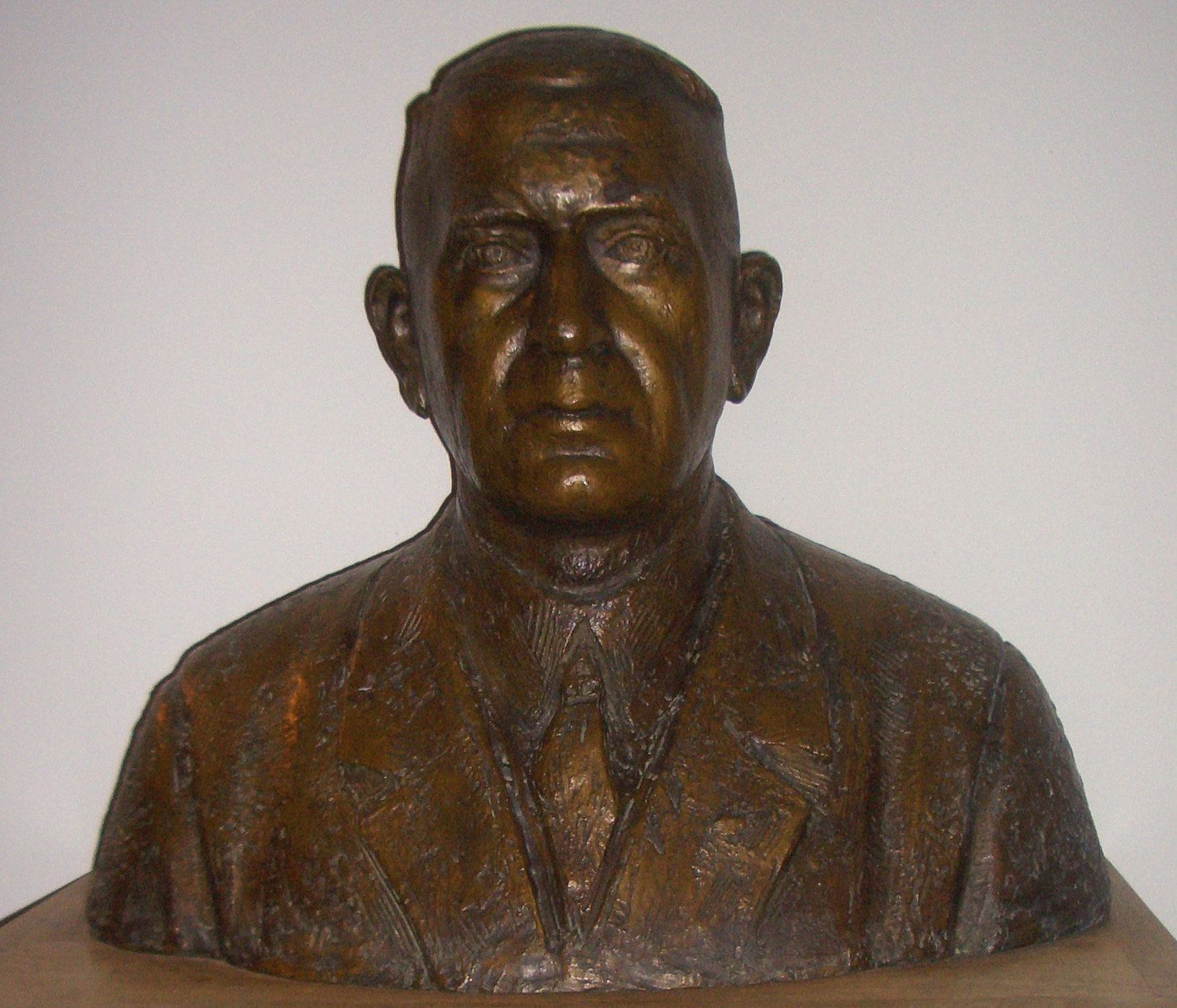 This picture of a bust of Frans de Wever was taken by me, Maarten van Wesel, in Heerlen.